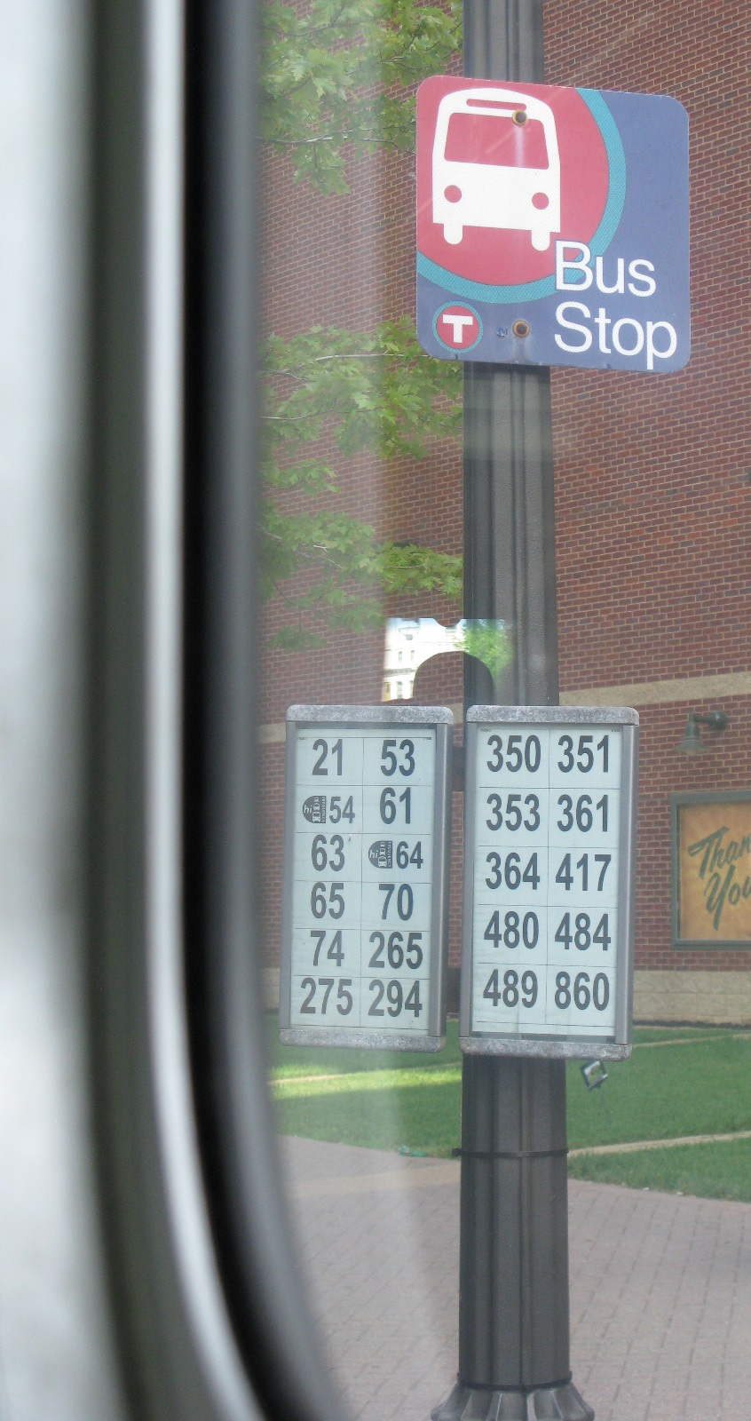 A Metro Transit bus stop sign in downtown Saint Paul, Minnesota, showing all the routes that stop at this location. A special logo denotes Hi-Frequency Routes. This picture was taken from aboard the bus.